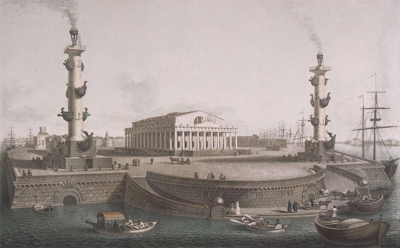 View of the Bourse from Bolshaya Neva (1810s). Etching with watercolour, 55.5x81 cm. State Hermitage.